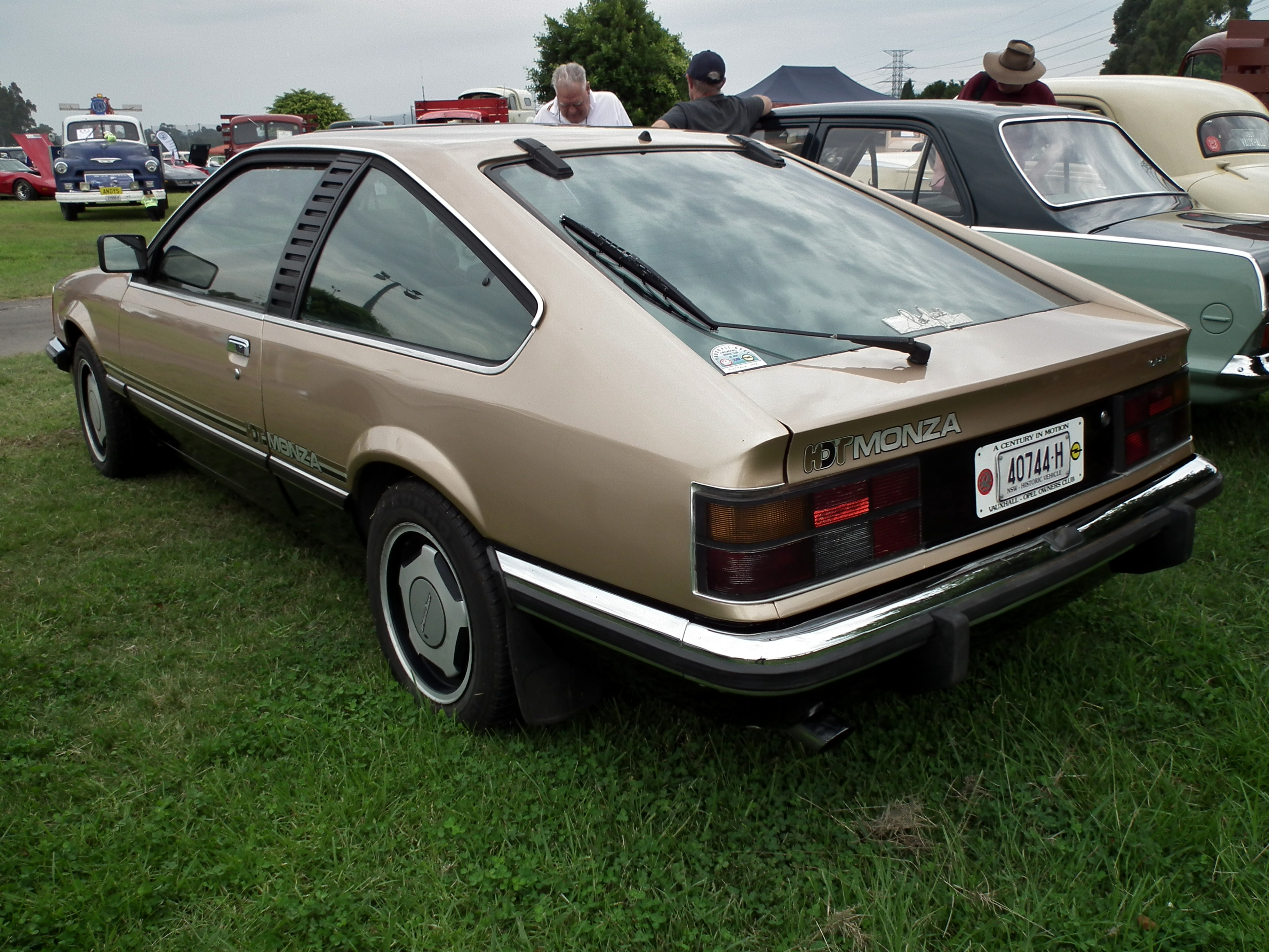 1980 Opel Monza coupe. Taken at the General Motors Display Day, held in the grounds of Penrith Panthers Club, Penrith NSW.